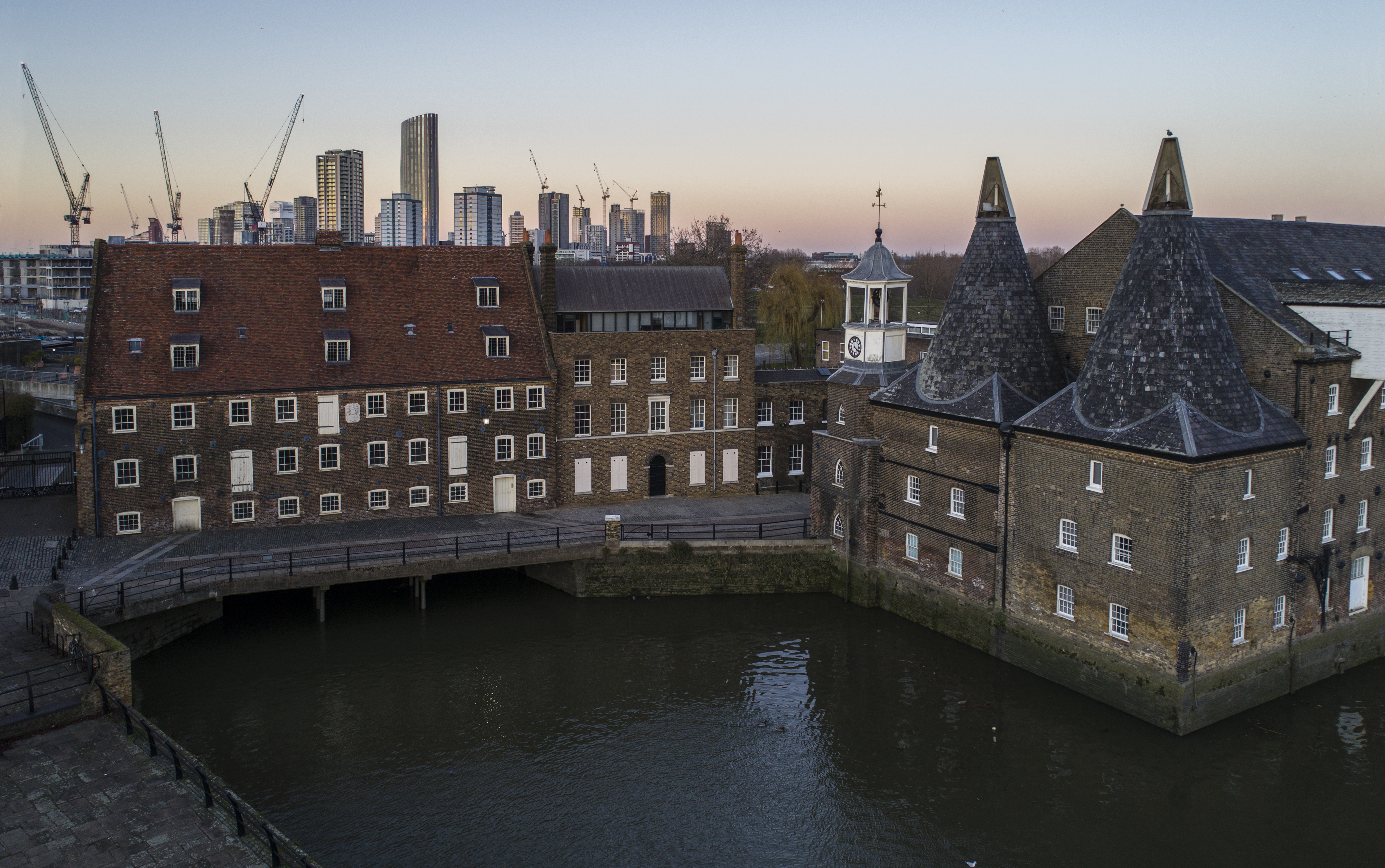 A Grade I listed large tidal mill on the River Lea in Bromley-by-Bow, London.